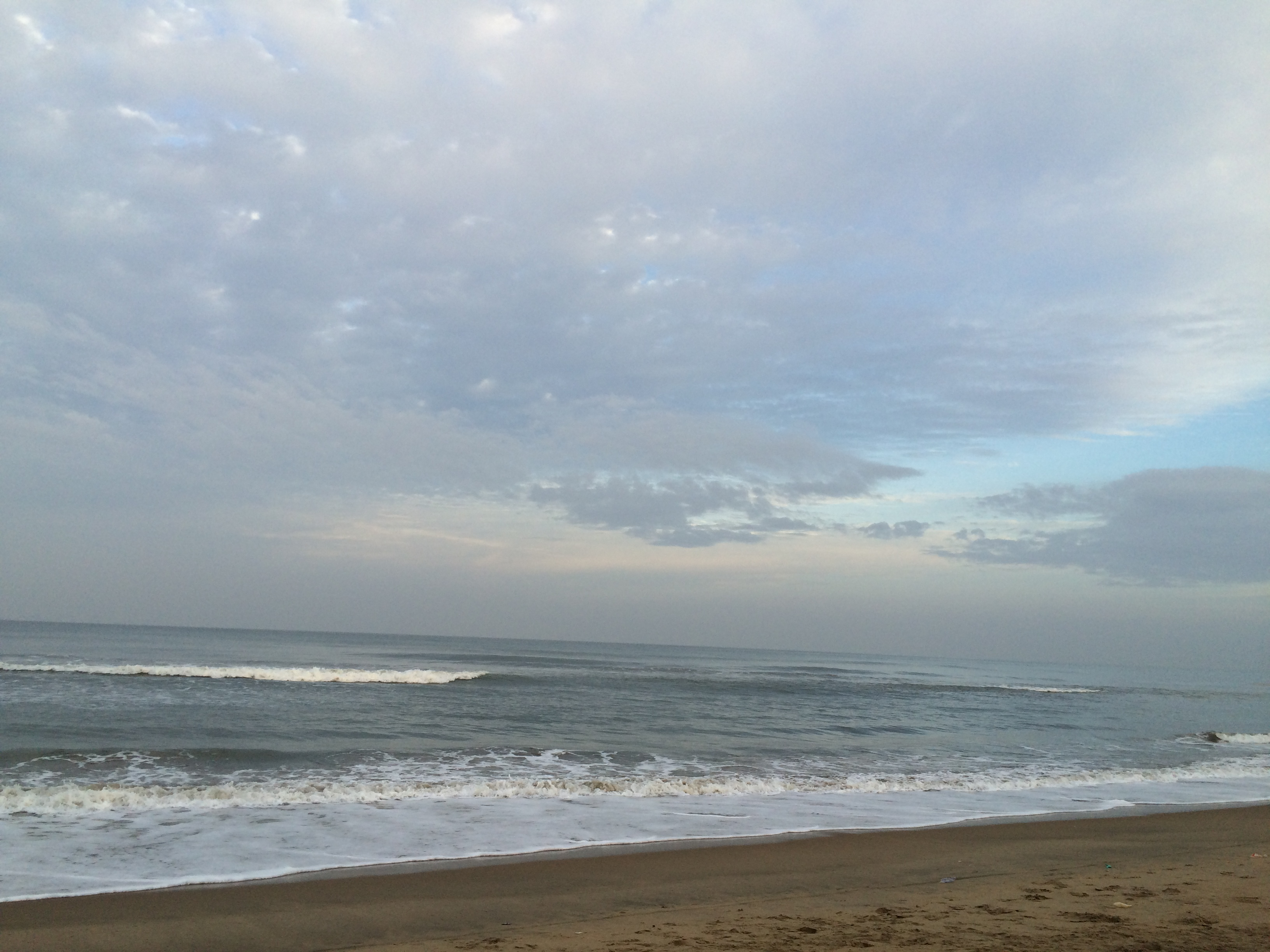 good place to visit with peace and with out dust